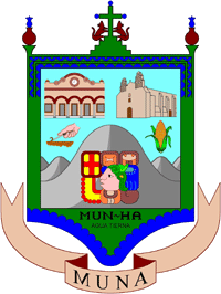 Coat of arms of Muna, Yucatan.